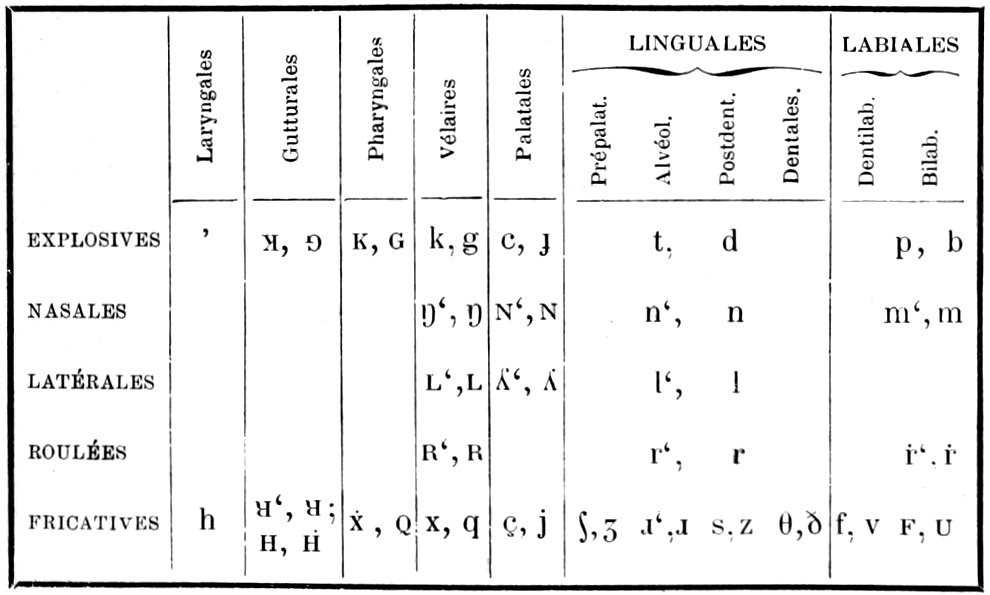 IPA consonants in Passy (1890) Étude sur les changements phonétiques et leurs caractères généraux, p. 89.